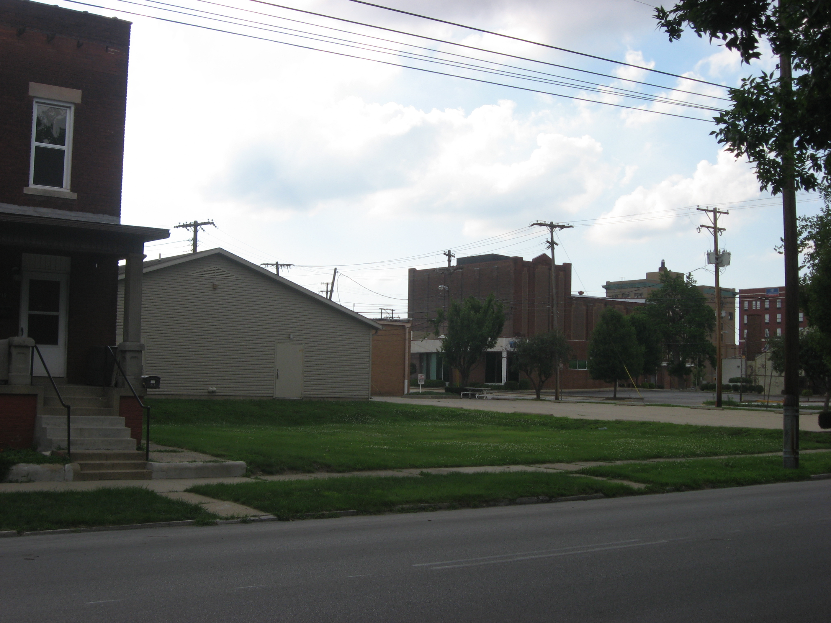 Site of the House at 209-211 S. Ninth Street in Terre Haute, Indiana, United States. Built in 1880, it is listed on the National Register of Historic Places despite its destruction.